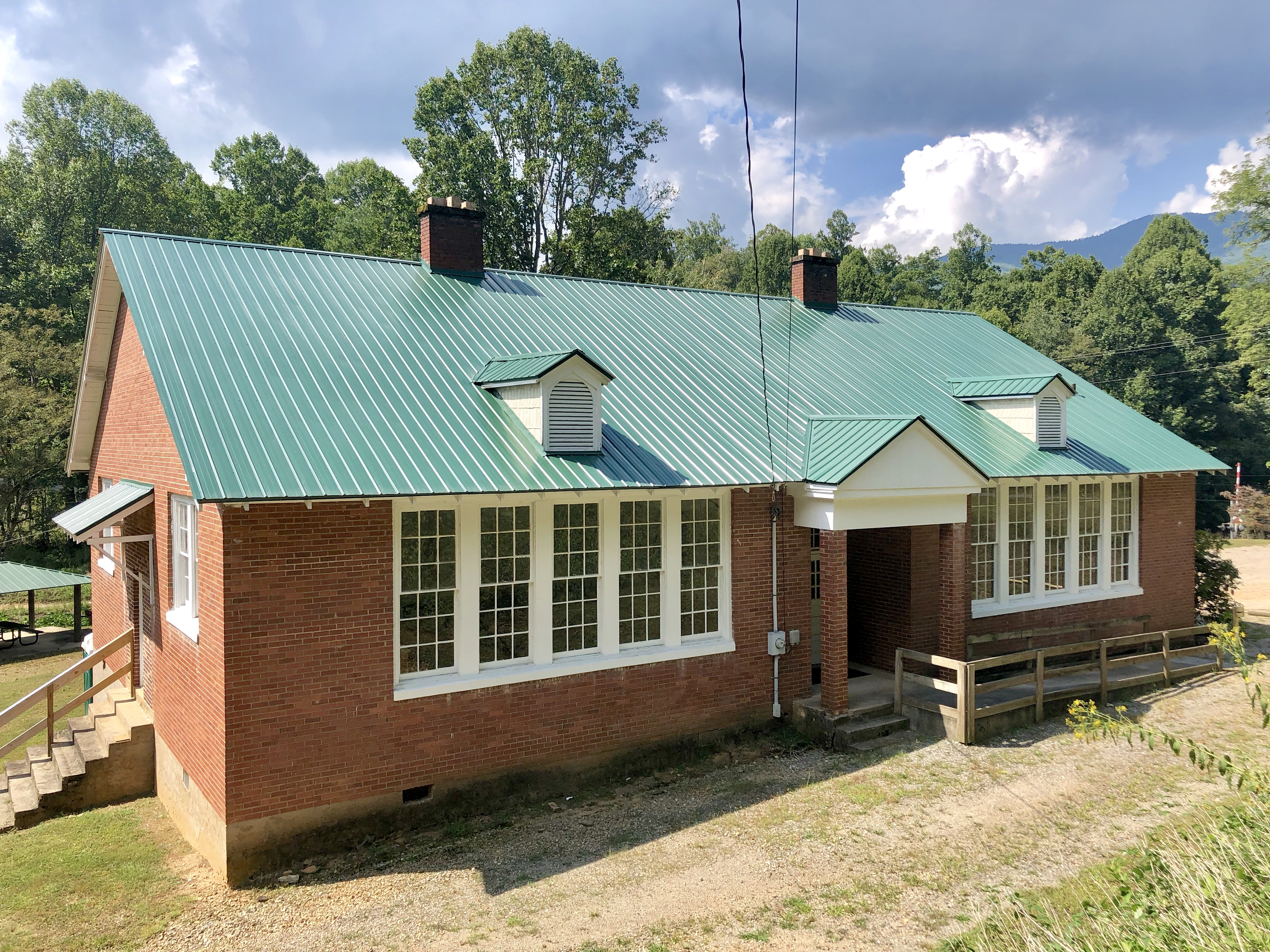 This is the former Balsam School at Balsam, North Carolina. The four-room brick building was constructed in 1940 after the previous wooden schoolhouse burned down, and remained in use until Scotts Creek Elementary School opened in 1951. After it closed, the building was converted for usage as the Balsam Community Center.